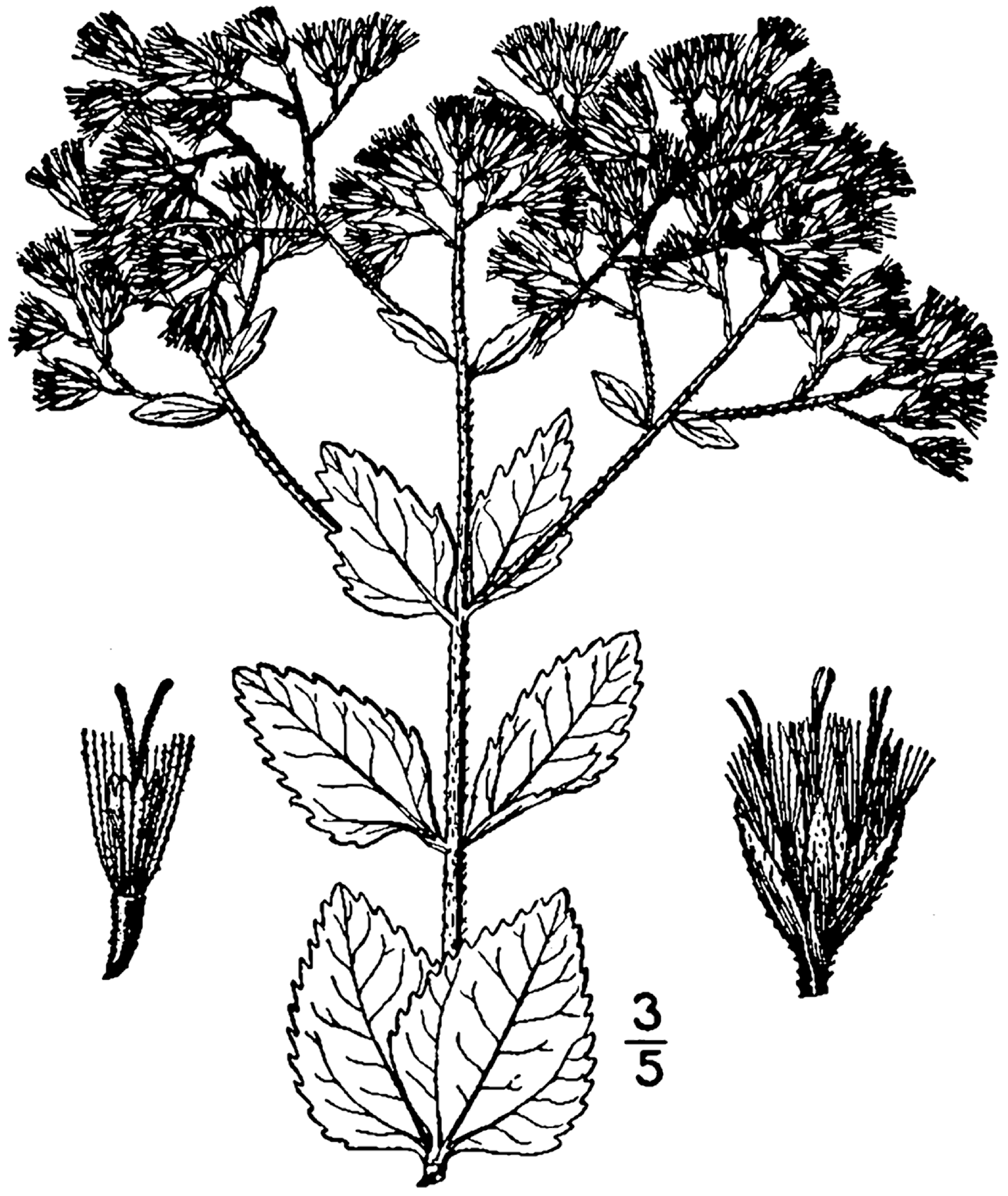 Eupatorium rotundifolium L. (roundleaf thoroughwort)